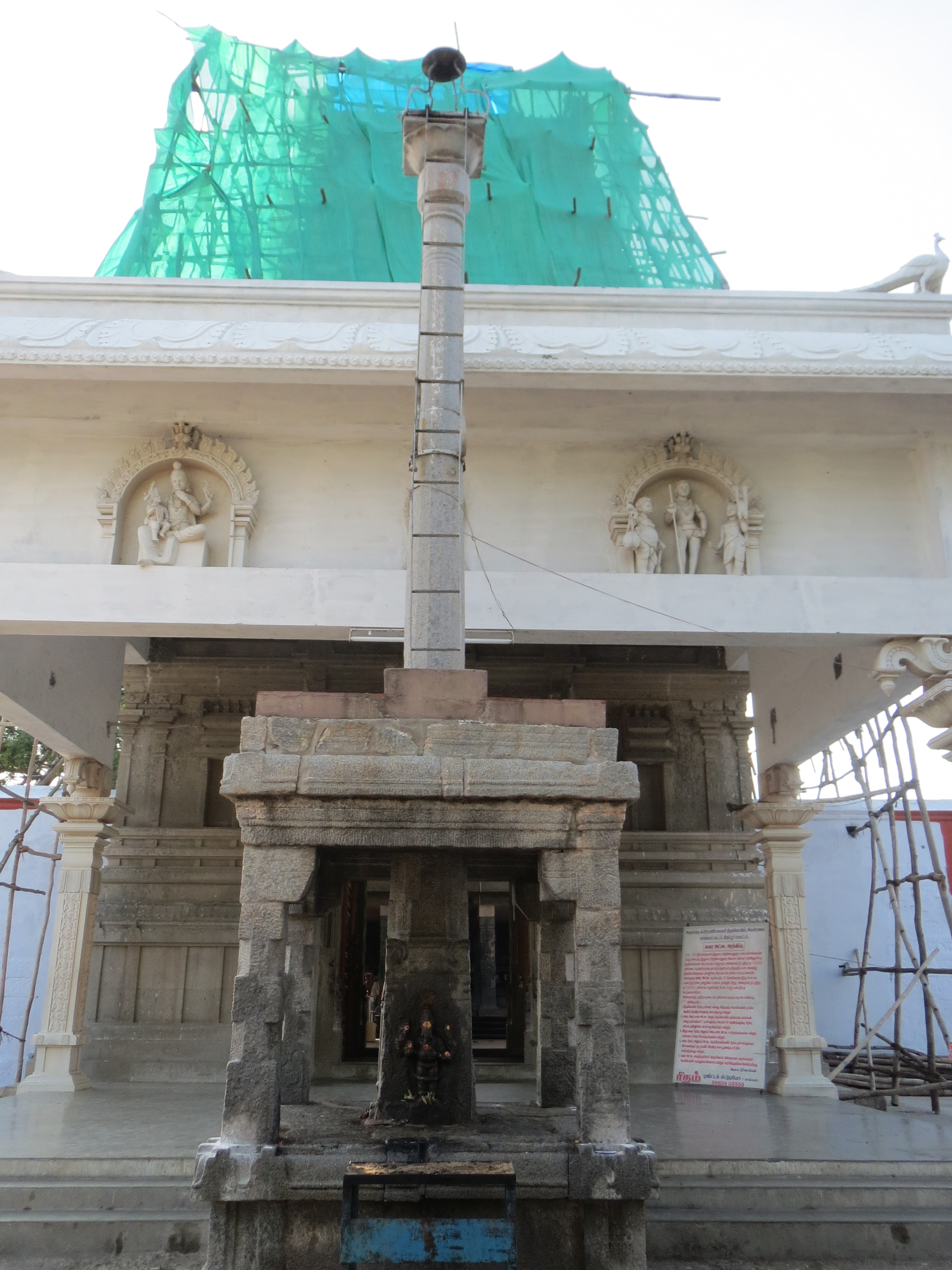 Deepa Sthambam at Sivanmalai Subramaniar Temple, Tamil Nadu. Tamil: சிவன்மலை சுப்பிரமணியர் கோயில் முன் அமைக்கப்பட்டுள்ள தீபத்தூண்.